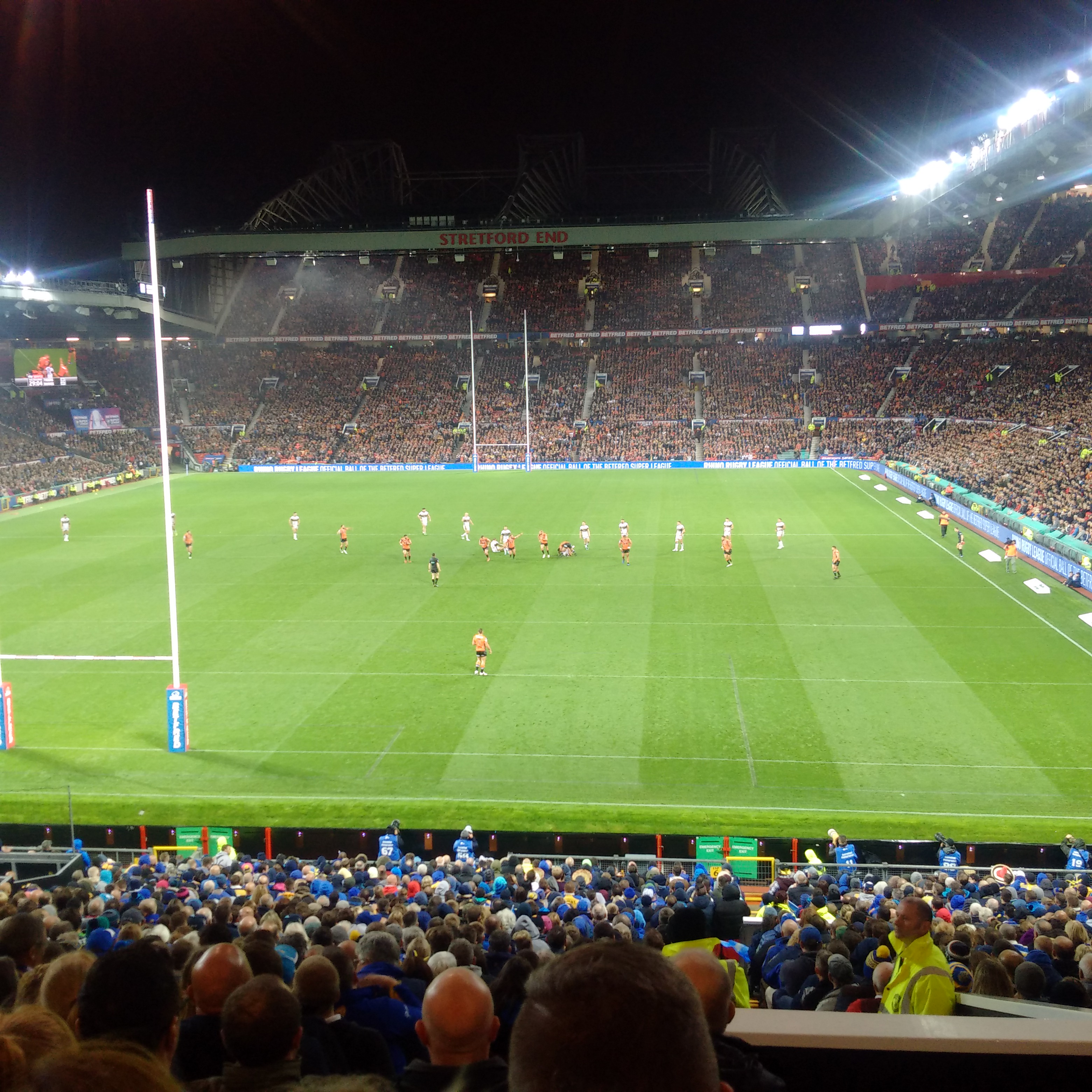 Betfred 2017 Super League Grand Final between Castleford Tigers and Leeds Rhinos. Leeds Rhinos won the game 24-6 (see match report [1]). Castleford had had a strong season up until this point winning the League leaders trophy; while seasoned veterans Leeds had had a difficult couple of seasons ([2]. The game took place at Old Trafford football ground in Manchester kicking off at 1800 BST on Saturday the 7th of October 2017.